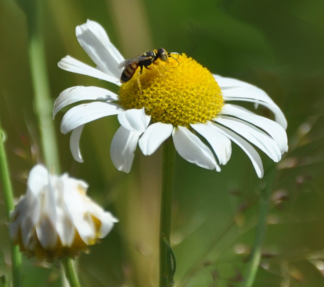 Leucanthemum vulgare in Poznań